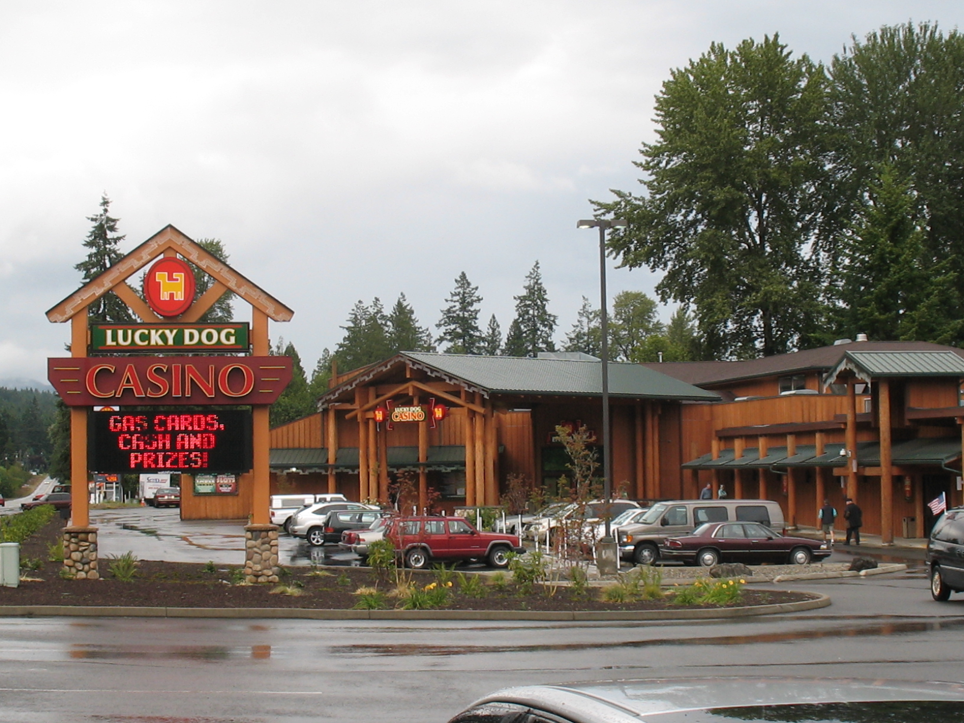 Lucky Dog Casino of the Skokomish or Twana Tribe in Washington